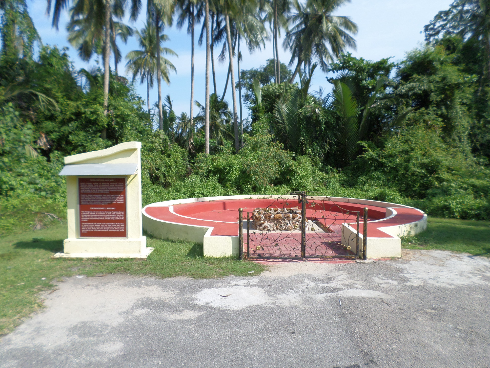 Portuguese Well, Merlimau, Jasin, Malacca, MalaysiaBahasa Melayu: Perigi Portugis, Merlimau, Jasin, Melaka, Malaysia